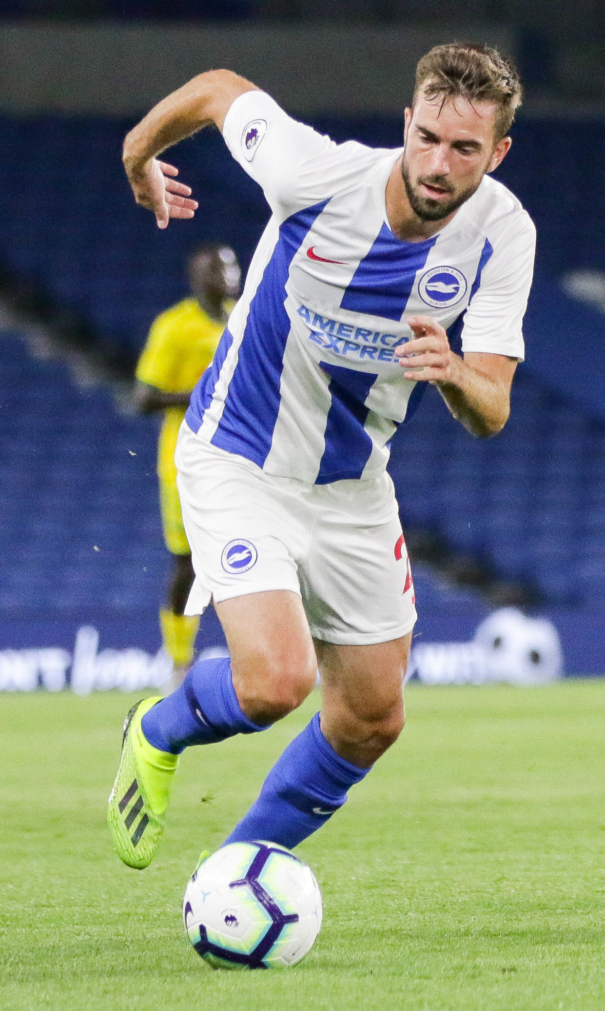 BHA v FC Nantes pre season 03 08 2018-1020.jpg